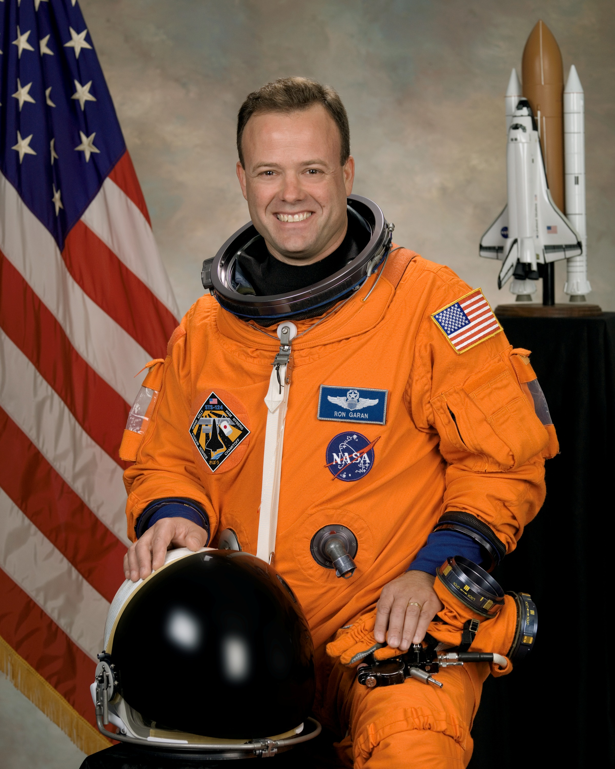 Official portrait image of NASA astronaut Ronald J. Garan, a mission specialist of STS-124.